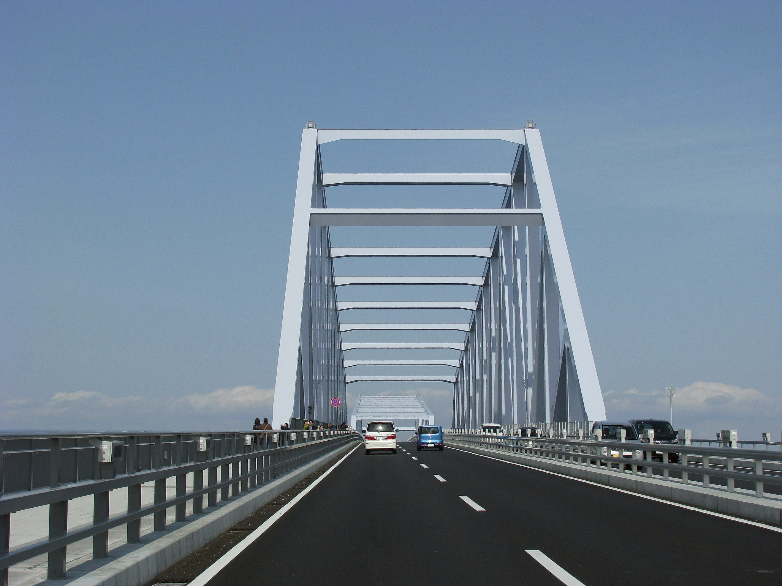 The Tokyo Gate Bridge in Tokyo, Japan.